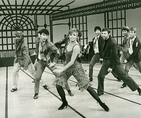 Juliet Prowse with male dancers in The Jonathan Winters Show, Episode#2.23 - publicity still (cropped)